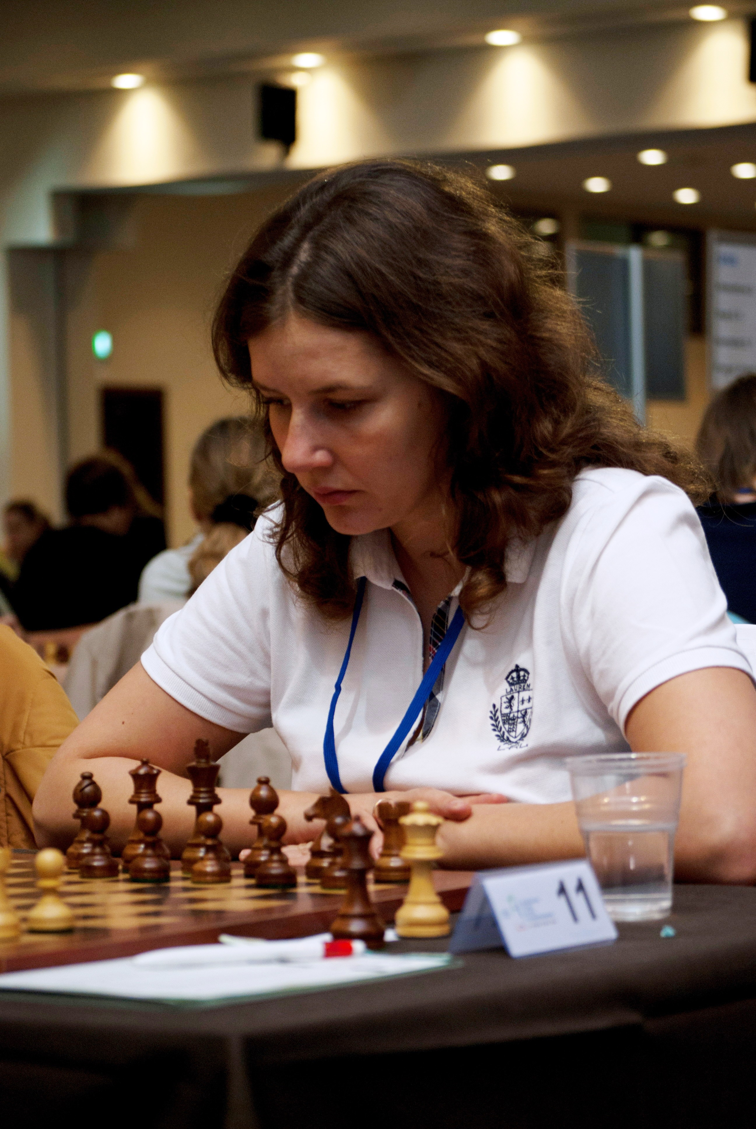 WGM Dana Reizniece-Ozola, Porto Carras EchT 2011.